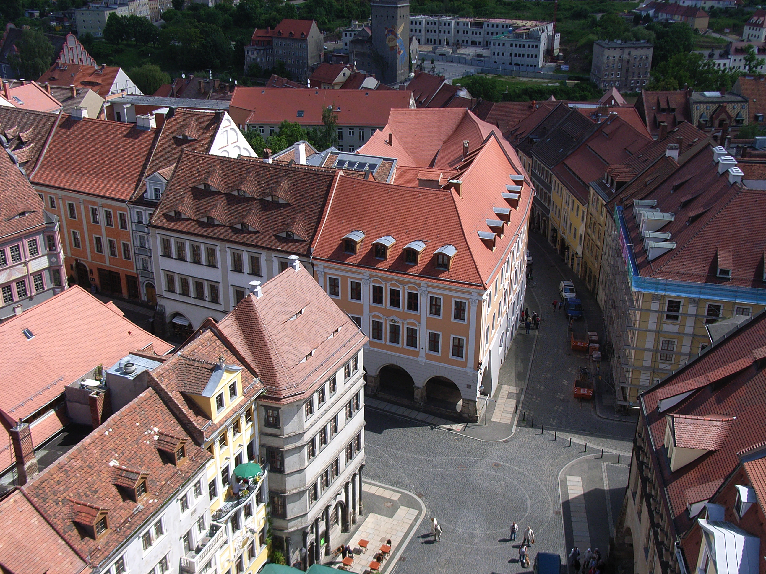 aerial image of the square "Untermarkt" in Görlitz, Saxony